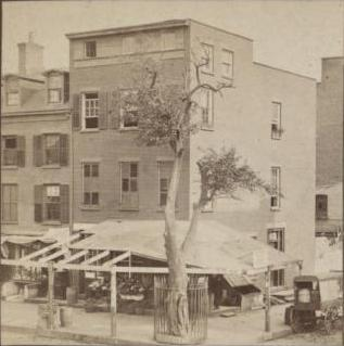 A cropped version of the Stuyvesant pear tree, N.E. corner, 13th and 3rd. Ave, NY City, from Robert N. Dennis collection of stereoscopic views.